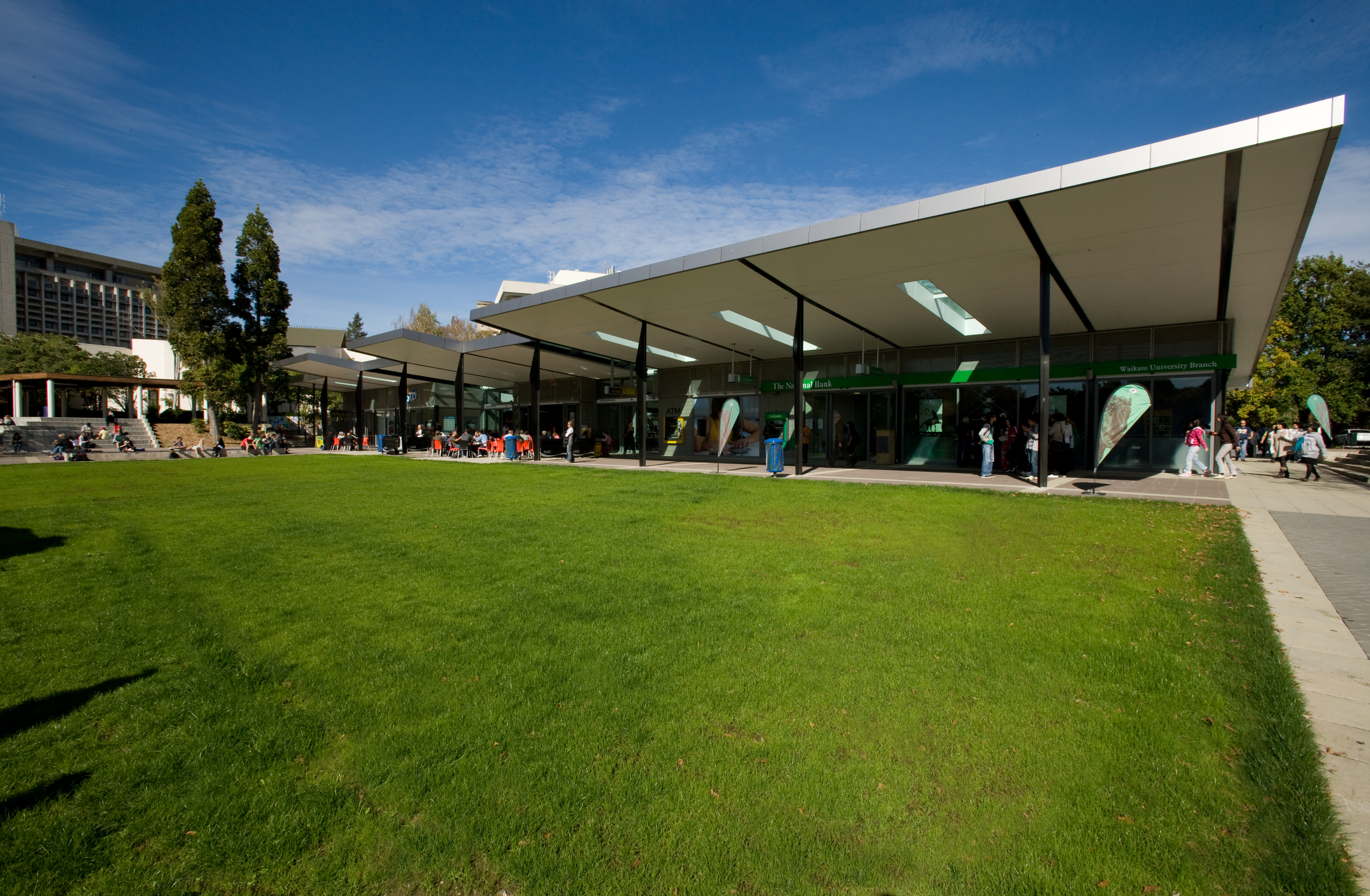 The village green between the shops and one of the three lakes on the University of Waikato campus.